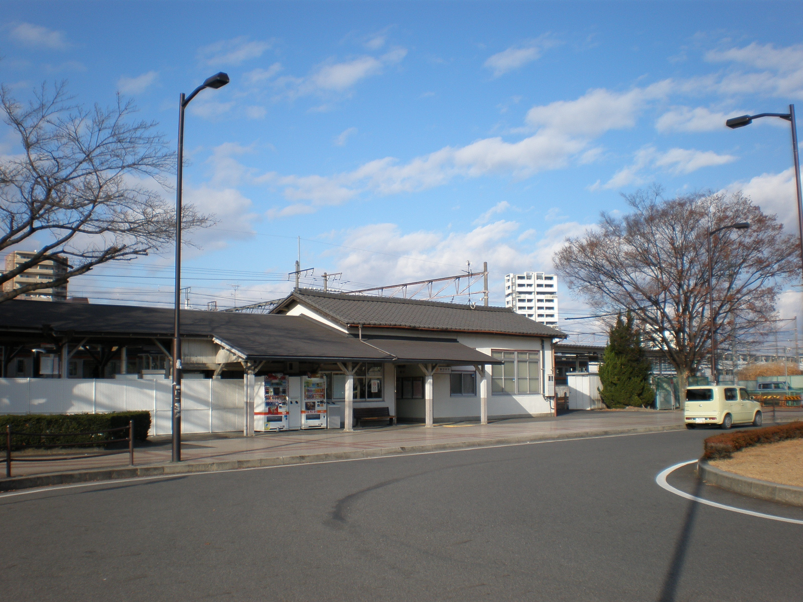 South entrance of JR Kasugai station